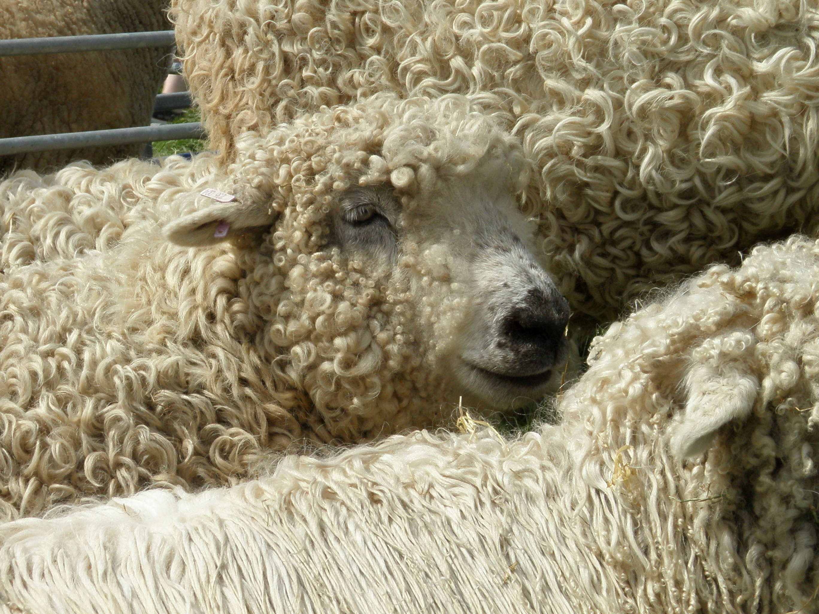 Grey Faced Dartmoor sheep, Fillongley Show 2009